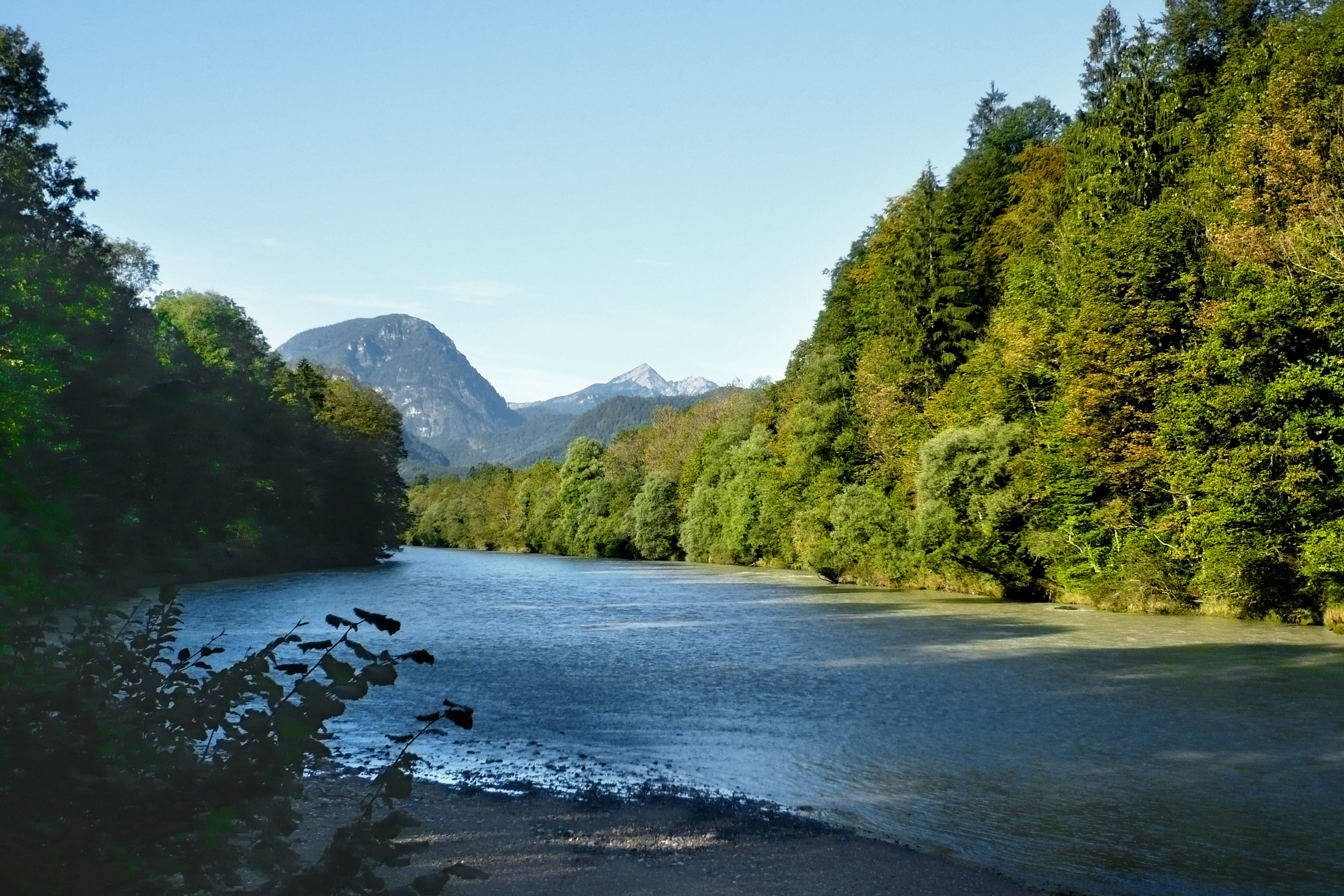 Saalach River near Bad Reichenhall in Bavaria, Germany.